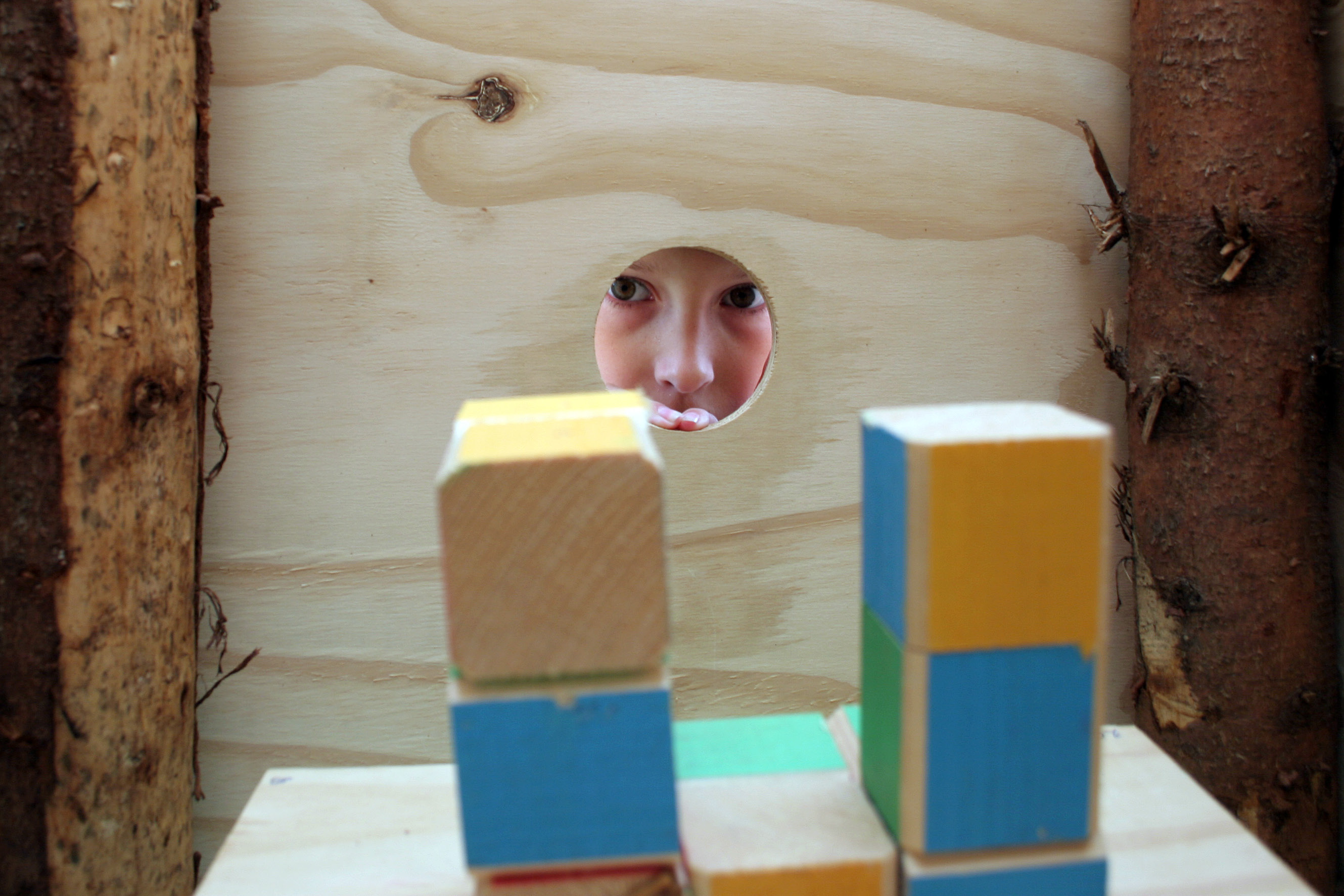 A scout studying a model from limited point of view, with the object to build a copy together with her patrol in an activity at Jiingijamborii at Rinkaby by Kristianstad, Sweden.